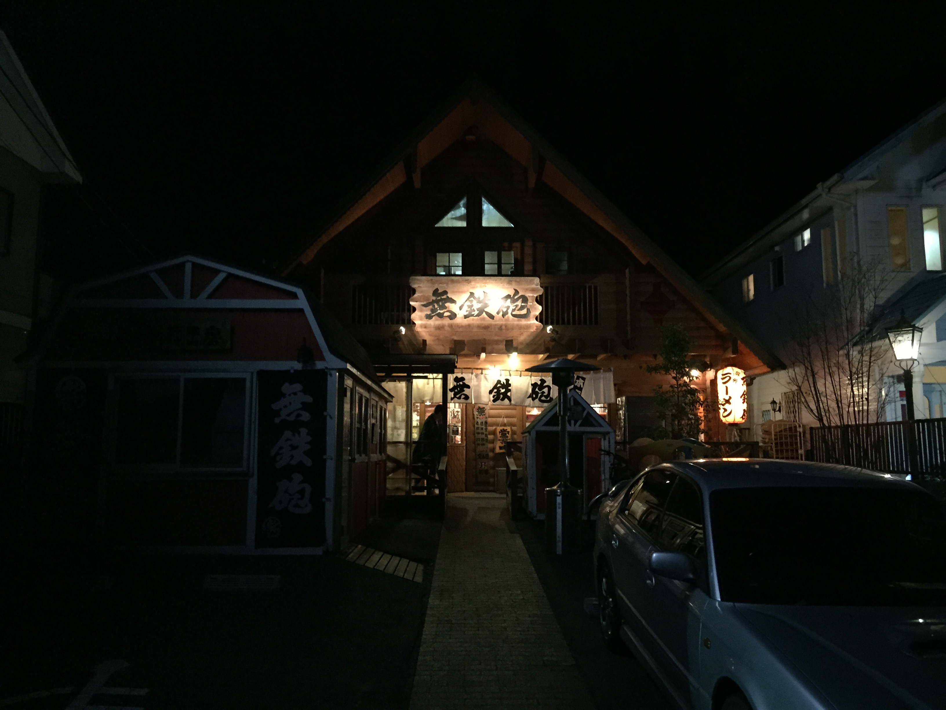 Muteppou Kyoto night view.